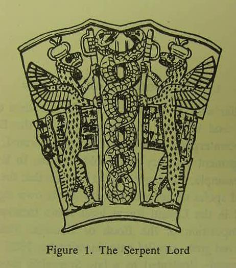 Ningizzida in the middle followed by the dragon Mushussu. Stone vase work "libation vase of Gudea".